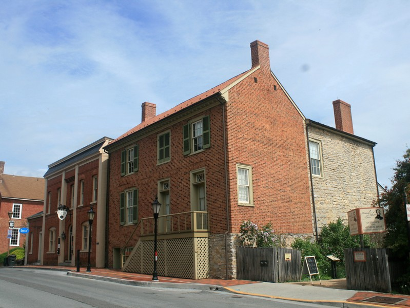 House of Stonewall Jackson in Lexington, VA